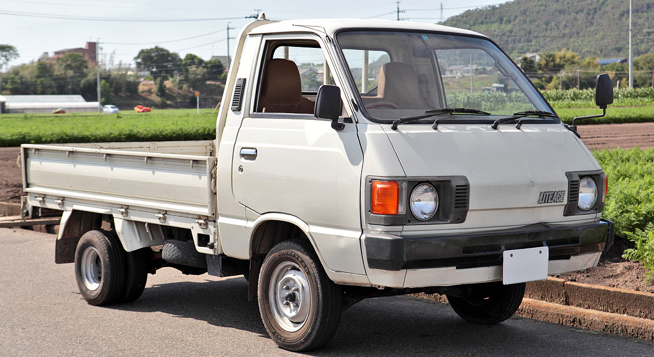 Second generation Toyota Liteace Truck 1.3 Just Low ( KM20 ).